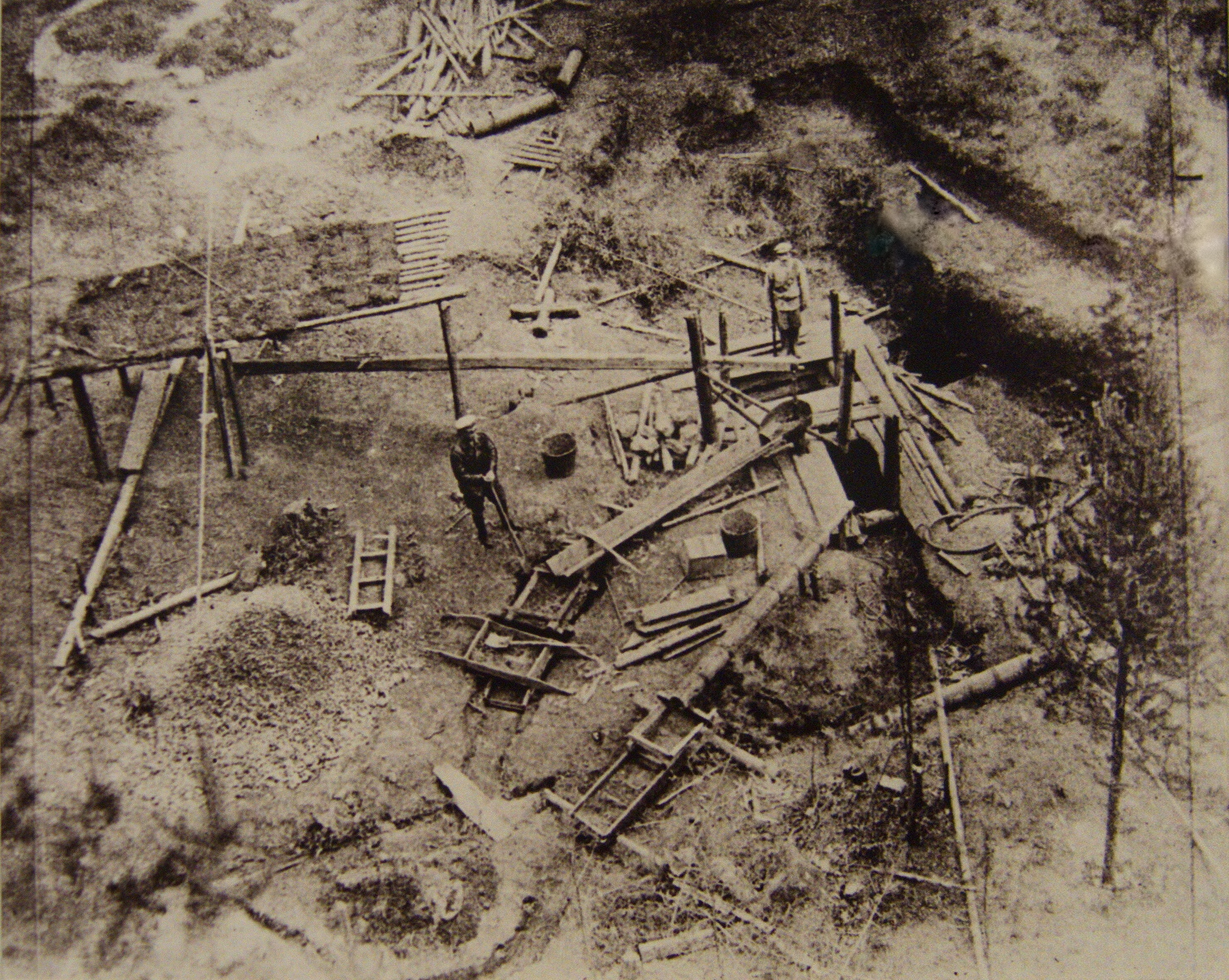 Photo № 70. The open mine during the inspection in spring of 1919. Sokolov's investigation: The whole district near this shaft, shown in photo No. 4 [Other versions], was first inspected very carefully in the presence of specially trustworthy persons (among these was a British subject, Robert Wilton to whom I granted permission to be present), then when the external investigation was complete this district was dug up and all the soil was passed through sieves and then rinsed in water. Everything was taken out of the shaft and minutely examined, passed through sieves and washed. No. 7. The shaft after this work had been done.